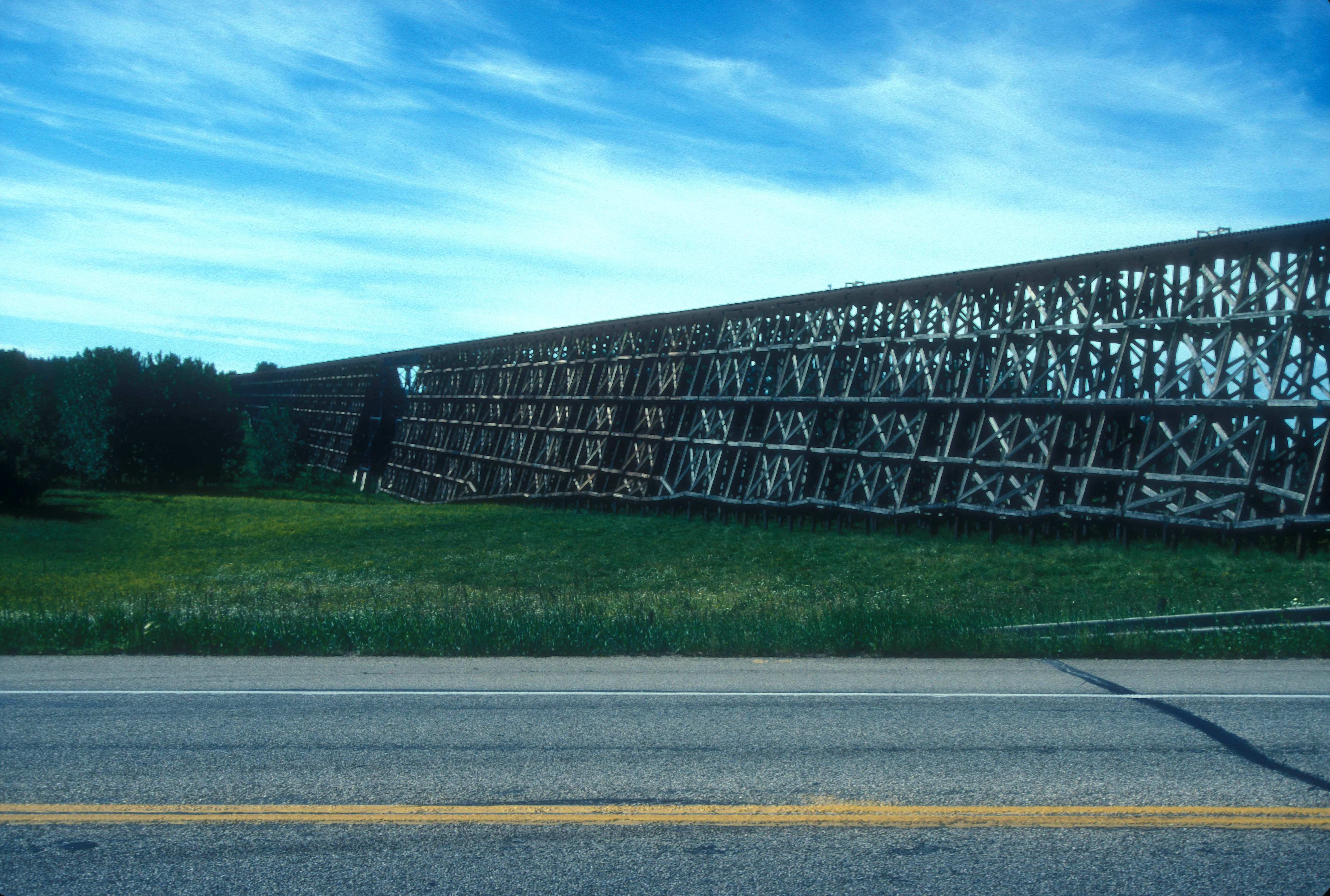 2ND LONGEST WOODEN TRESTLE BRIDGE IN THE WORLD, 2,414 FEET CARRIERS THE CANADIAN NATIONAL RAILWAY OVER A HIGHWAY AND THE PADDLE RIVER near the hamlet of Rochfort Bridge in Lac Ste. Anne County, Alberta, Canada.